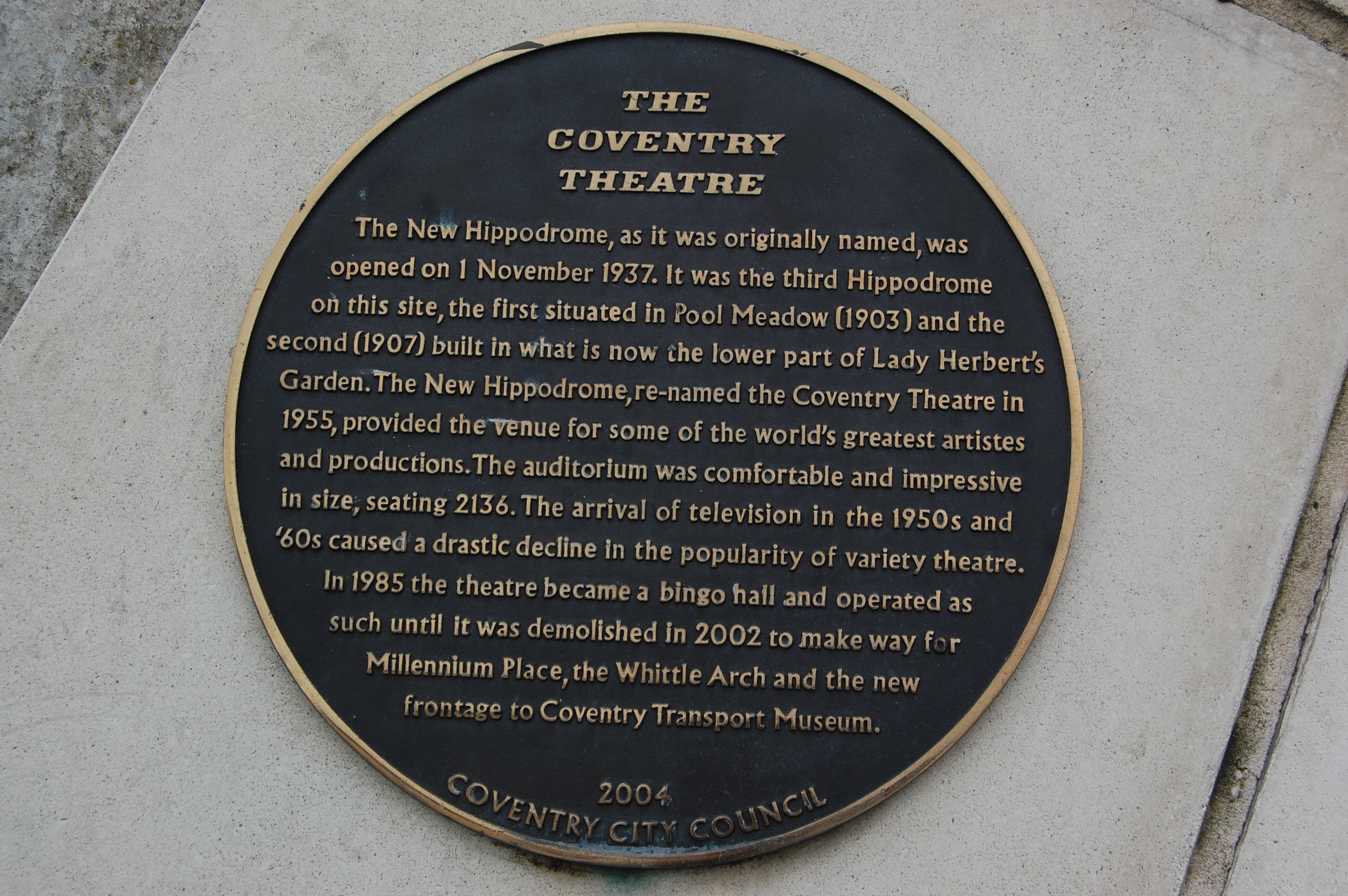 A commemorative plaque about the Coventry Theatre, Coventry